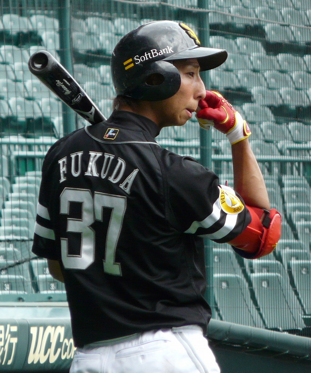 Shuhei Fukuda, outfielder of the Fukuoka SoftBank Hawks, at Hanshin Koshien Stadium.